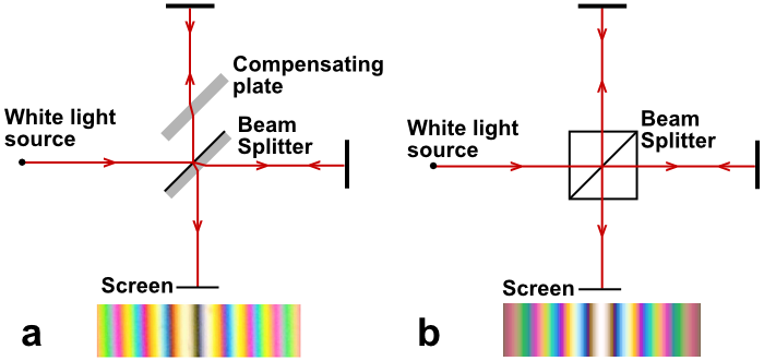 White light fringes in a Michelson interferometer. A Michelson interferometer using white light. (a) Michelson interferometer with a mirror beam splitter. A compensator plate is required to equalize the two paths. The two beams differ in the number of phase inversions. The central fringe representing equal path length is dark. (b) Michelson interferometer with a cube beam splitter, which provides equal phase shifts for the longitudinal and transverse beams. The central fringe representing equal path length is bright.